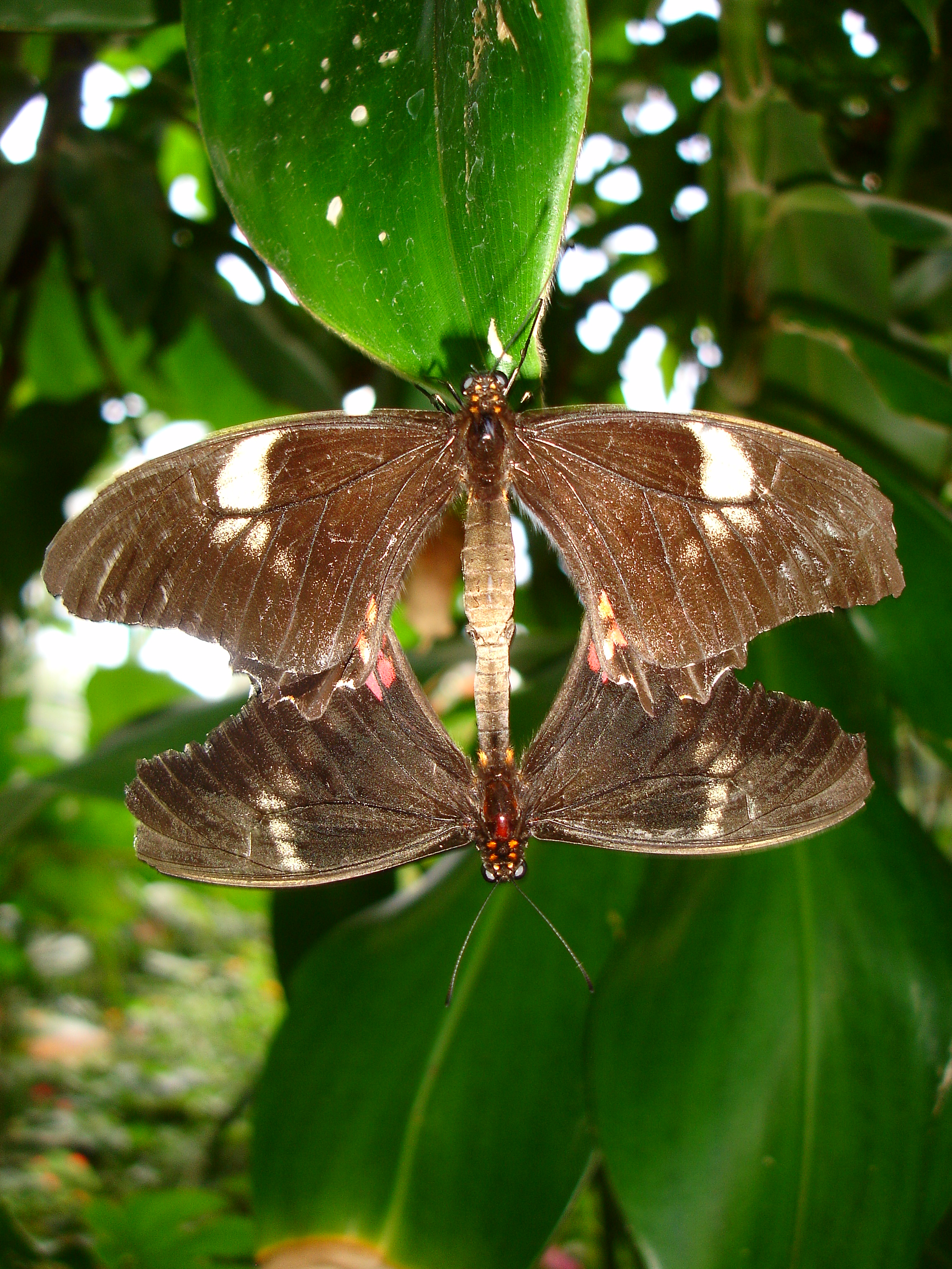 Mating butterflies in Costa Rica